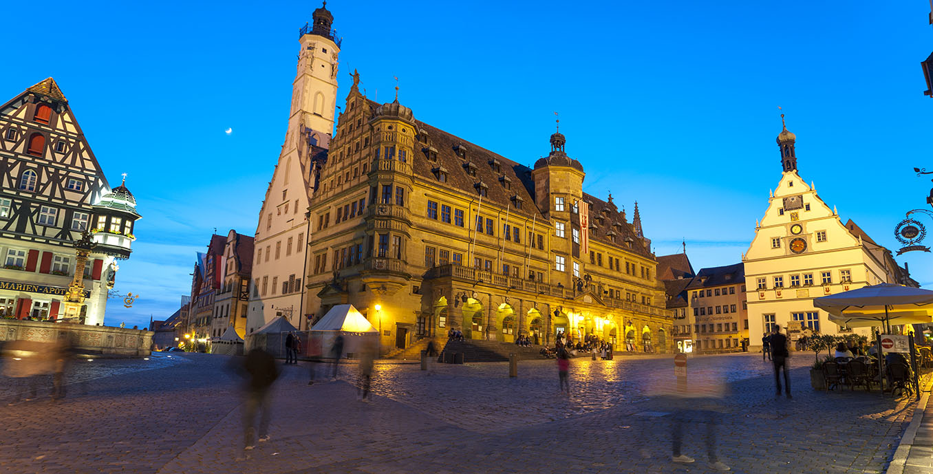 Blue Hour on the central square in Rothenburg ob der Tauber, Germany. A 2 long exposure blurs passerby while buildings retain sharp focus